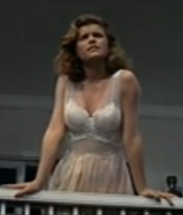 Cropped screenshot of Lee Remick from the trailer for the film The Long, Hot Summer